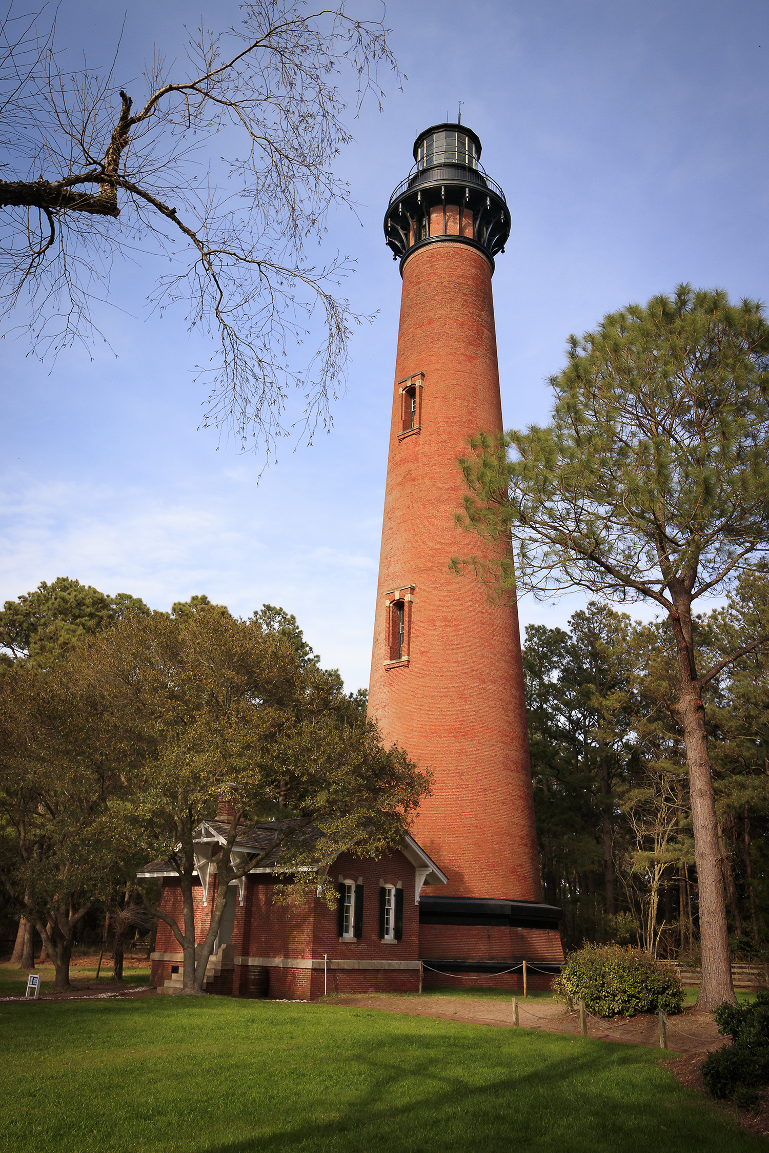 Currituck Lighthouse exterior.